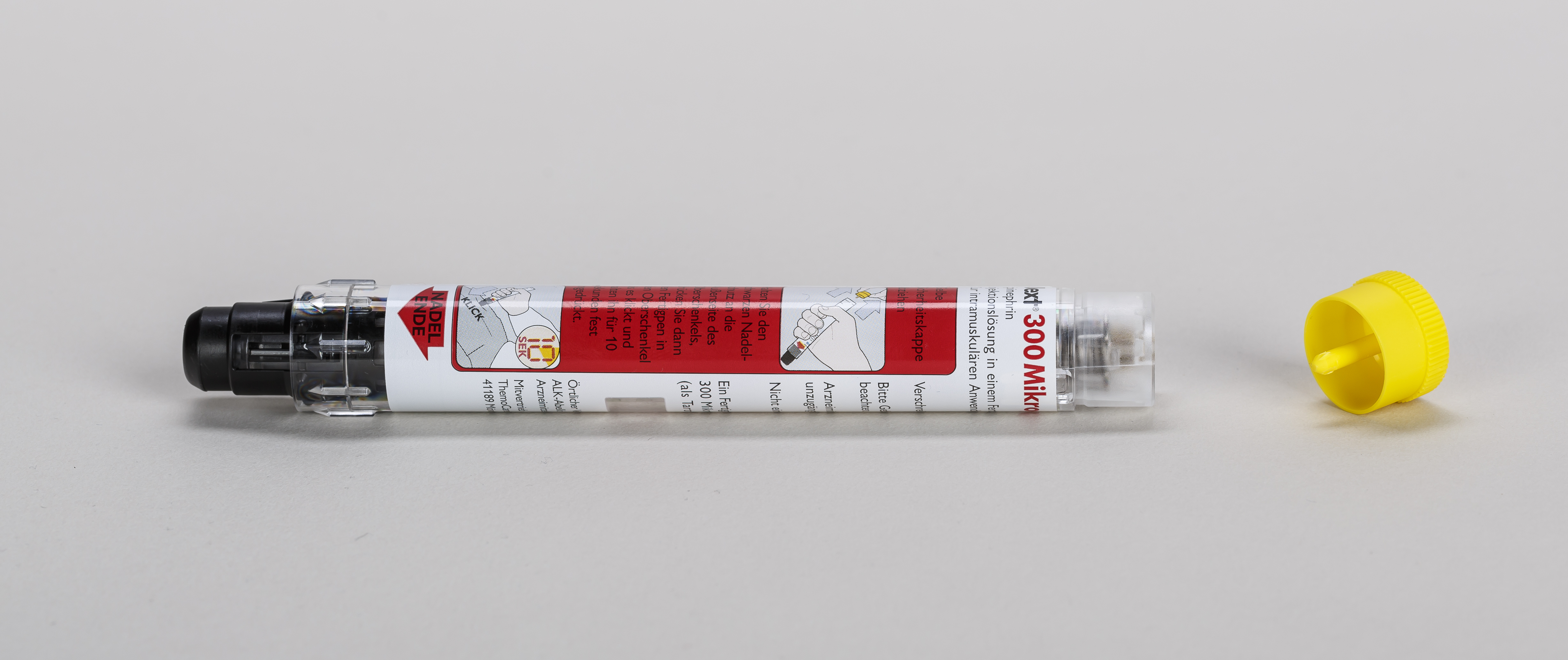 Jext300, adrenaline autoinjector with detached safety cap(ALK Pharma)